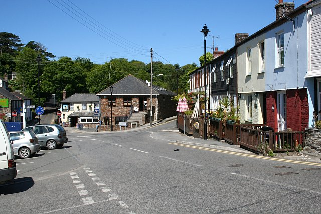 Peterville, St Agnes. This is the lower end of St Agnes, down a steep hill from the town centre. It has a slight holiday resort feel about it, probably because the road to Trevaunance Cove and the beach starts here.